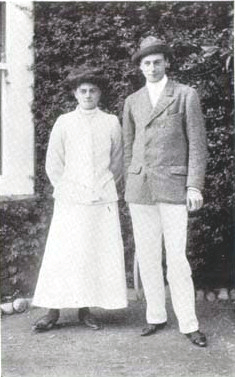 left: Gladys Eastlake-Smith (1883-1941), English tennis player, Olympic champion in 1908 right: Reginald "R.F." Doherty (1872-1910), English tennis player, Wimbledon champion in 1897-1900, US champion (1902, 1903), Olympic champion (1900, 1908)